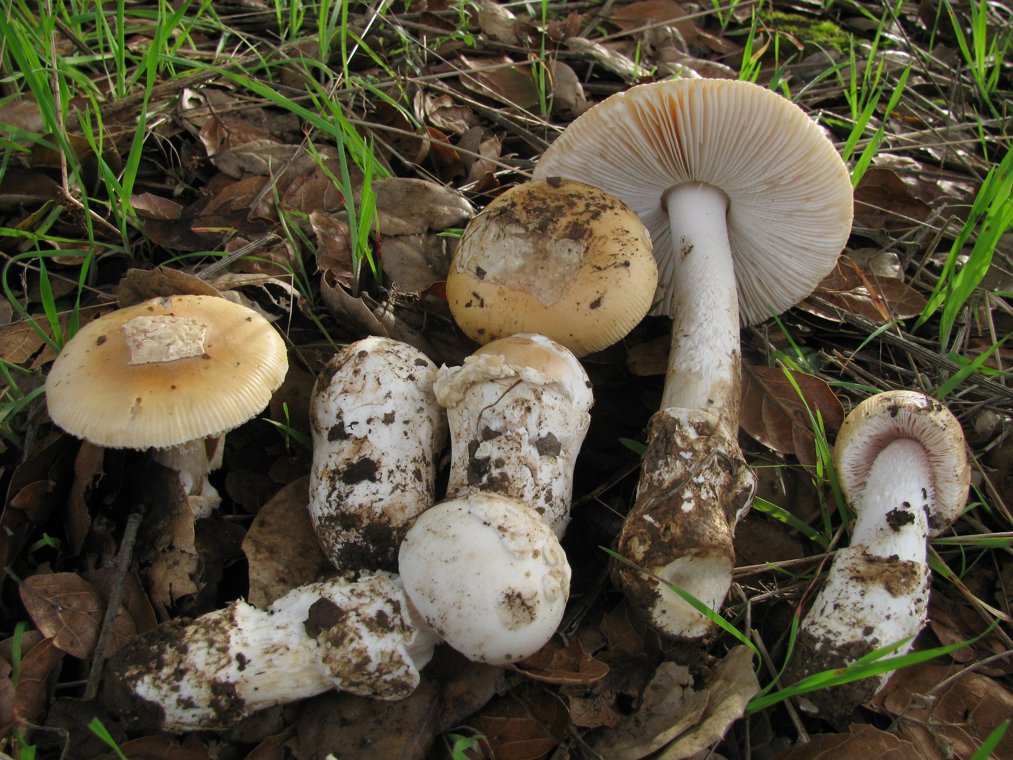 Amanita velosa (Peck) Lloyd Image location: Santa Cruz, California, USA Recognized by sight: found under coastal live oak For more information about this, see the observation page at Mushroom Observer.